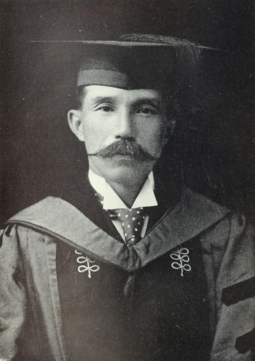 Portrait of Kentaro Kaneko